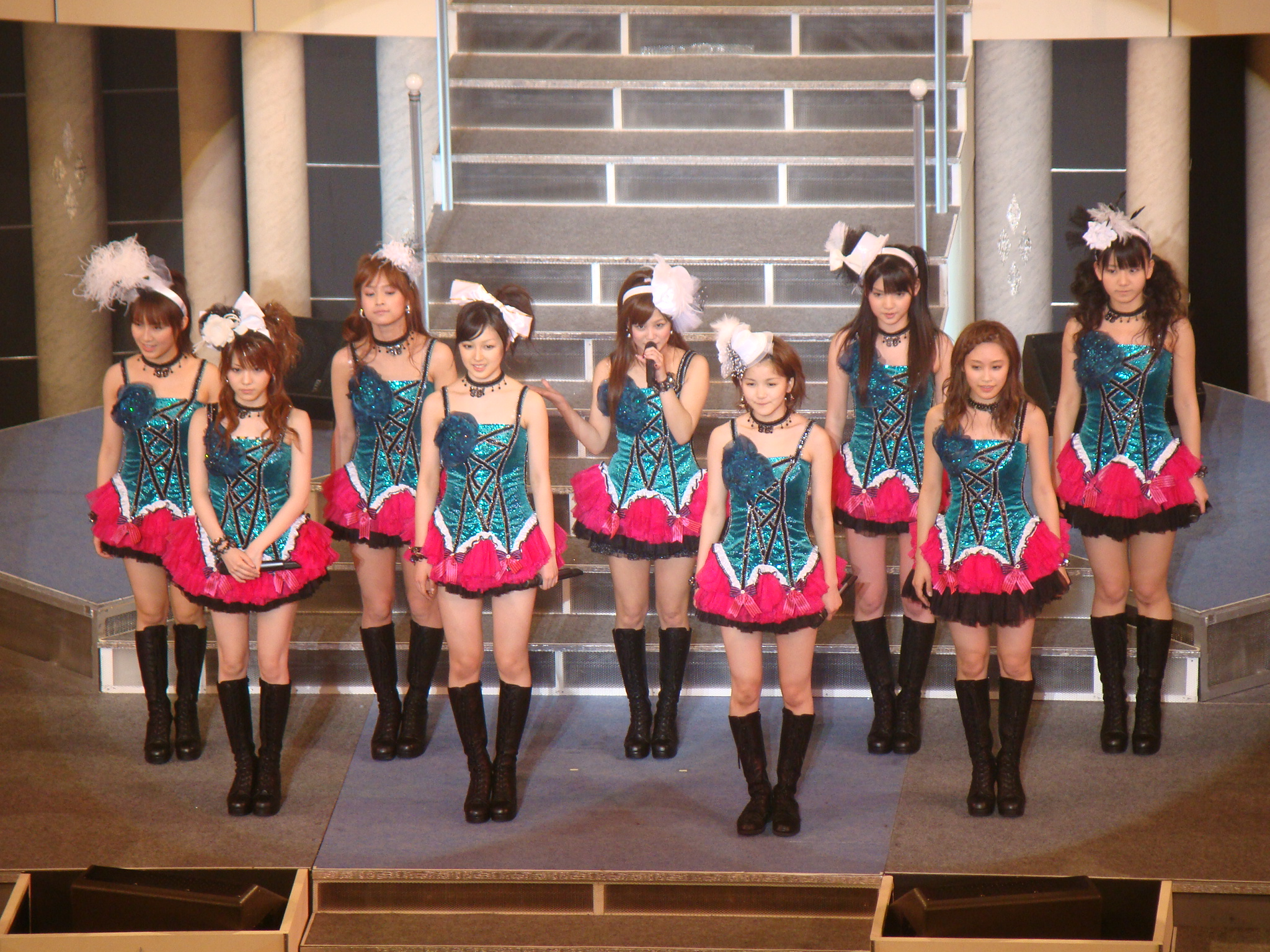 Morning Musume during their Platinum 9 Tour 2009 at Nakano Sun Plaza, Tokyo